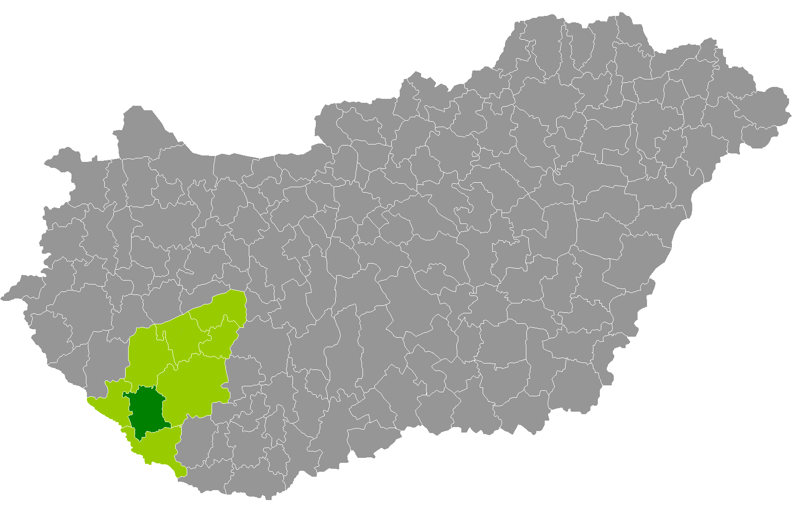 Location of Nagyatád District, Somogy, Hungary